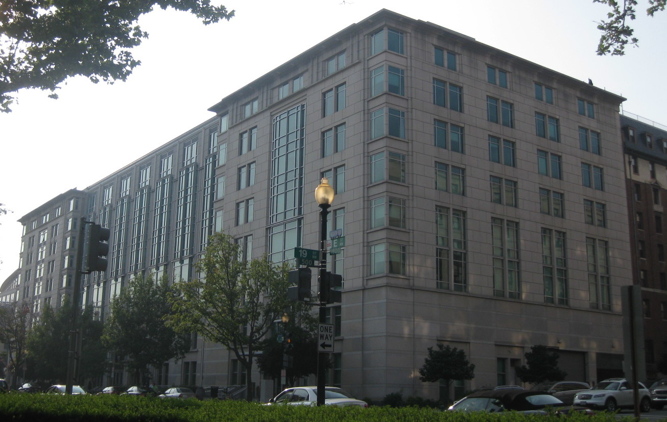 The Elliott School as scene across the street from a park in front of the General Services Administration. The Elliott School building, at 1957 E St NW, occupies the 19th to 20th Street block on E Street.